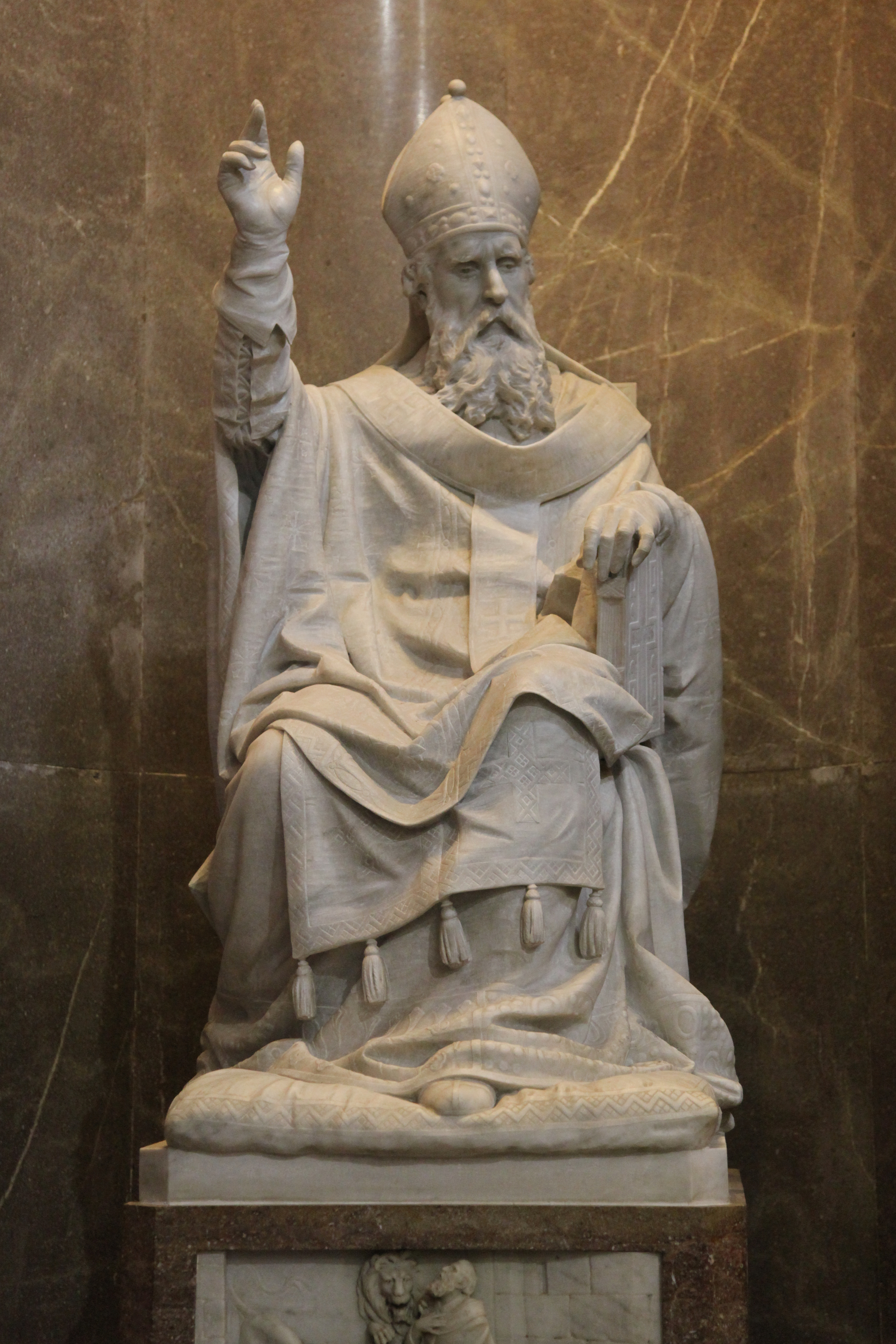 St. Paul's Cathedral, Pjazza San Pawl in Mdina, Malta